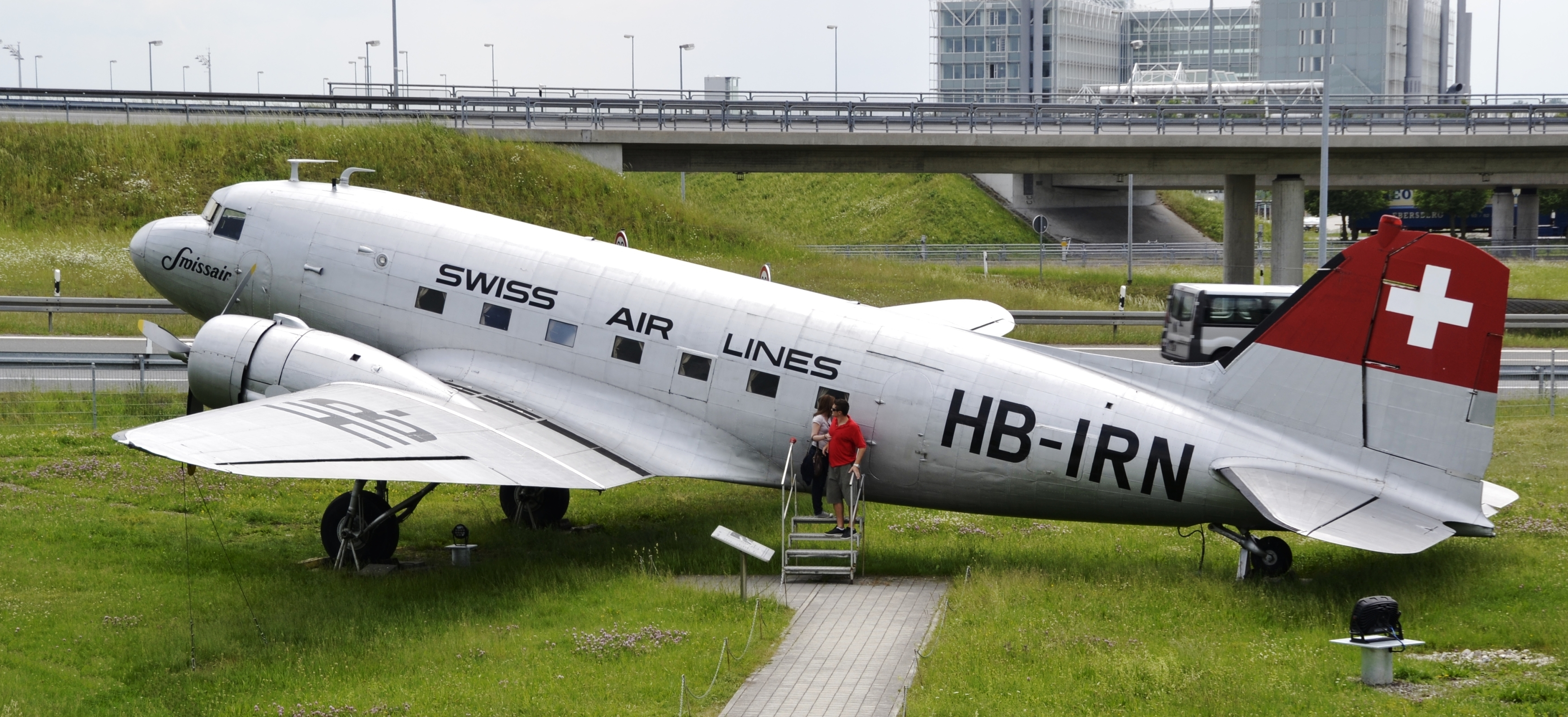 A Swissair Douglas DC-3(C) (HB-IRN) at the Munich Airport Visitors Park.